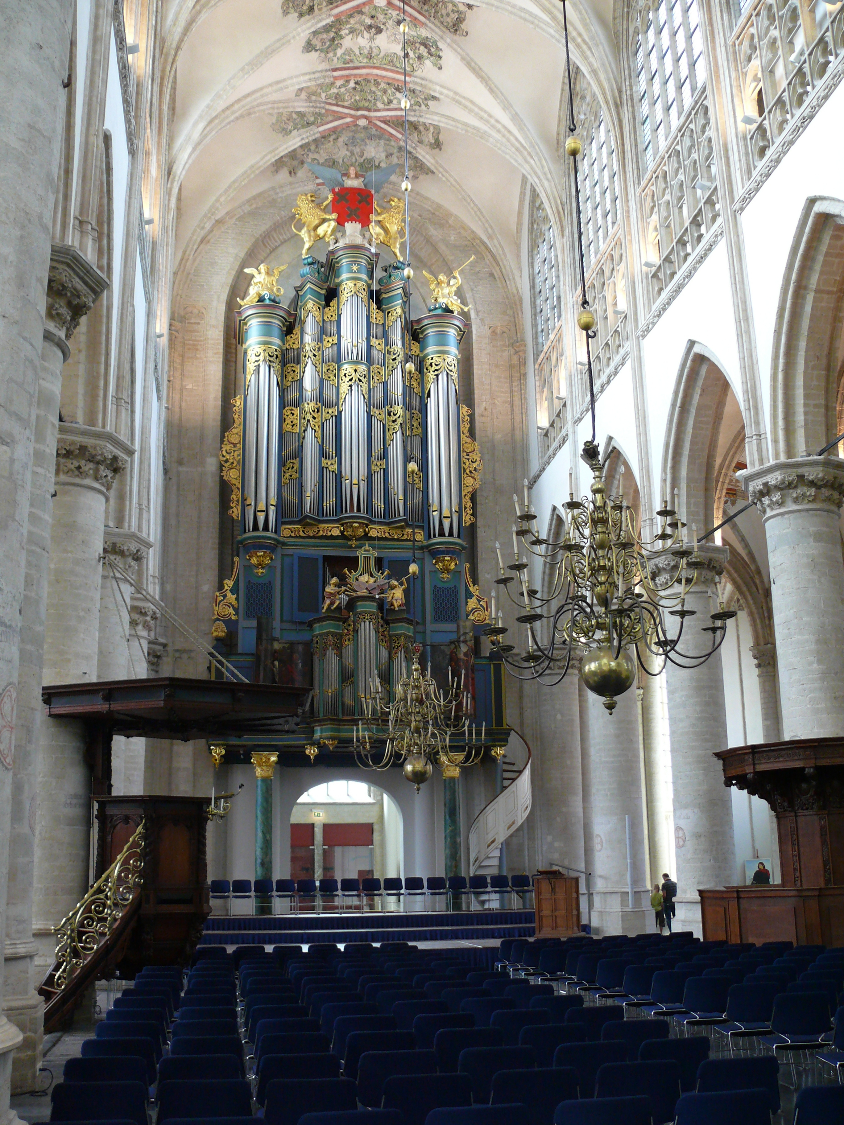 Organ of the Grote Kerk, also Onze-Lieve-Vrouwekerk (Great Church or Our Lady's Church) in Breda, a 13th century Church in Brabant gothic style.